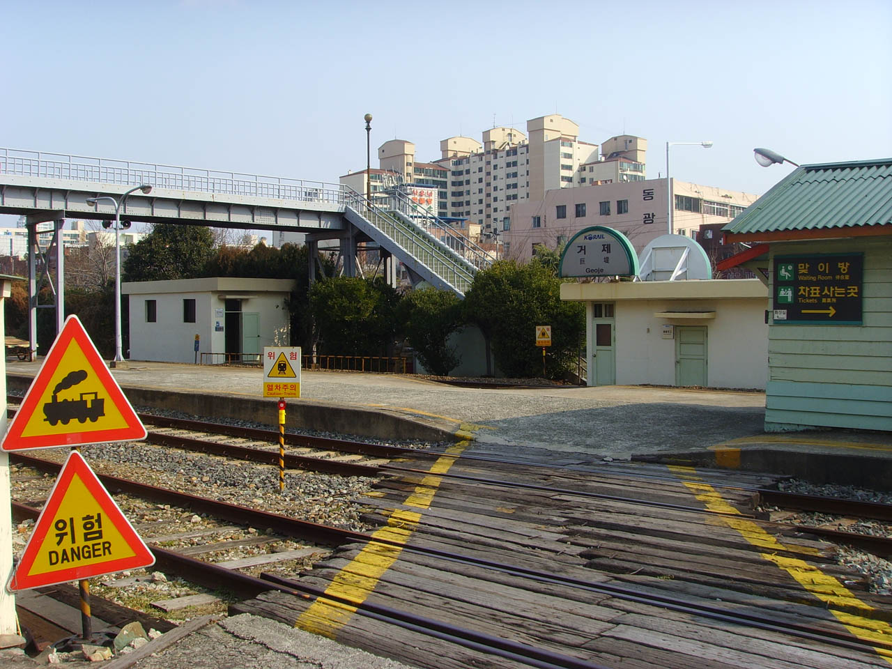 Donghaemanbu Line Geoje Station